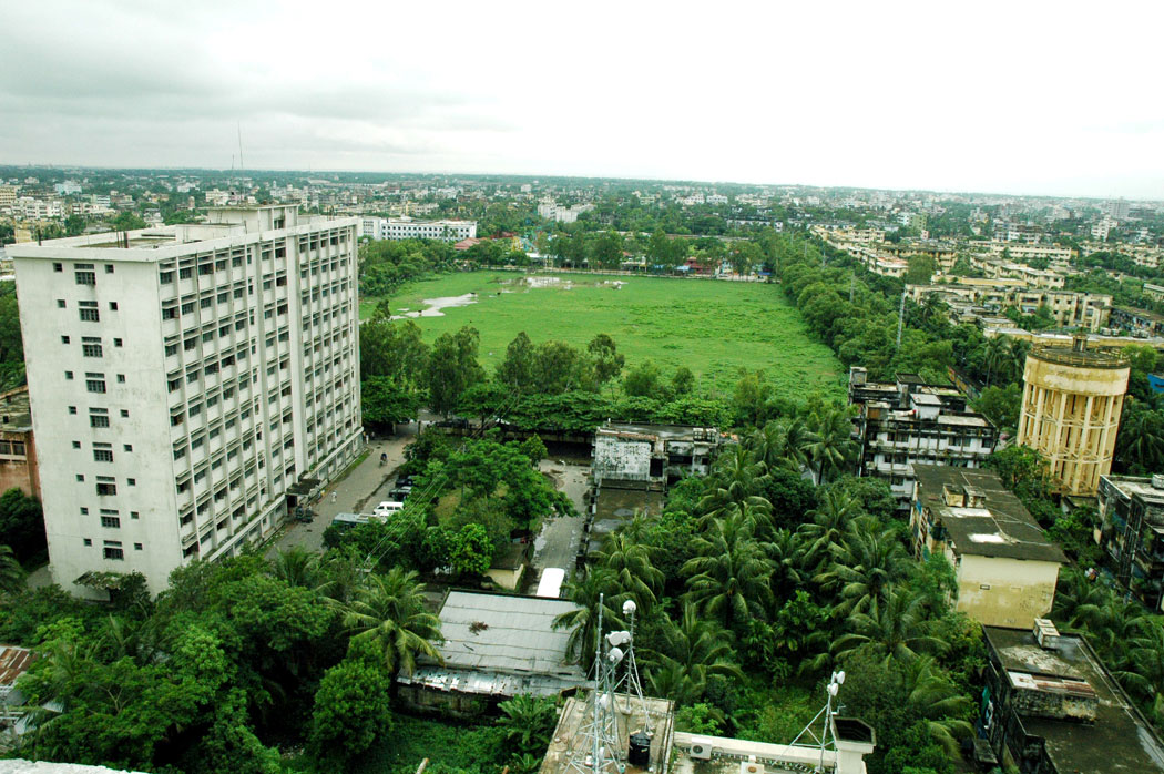 Chittagong Government Officer's Building located at Agrabad, Chittagong.